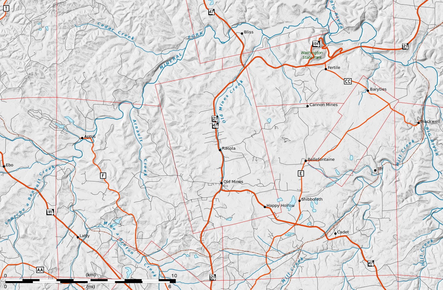 Map of the area around the village of Old Mines in MissouriThin red lines indicate townships and colonial land grants recognized in the Public Land Survey System